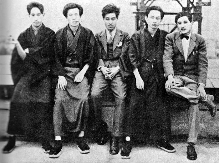 Members of the literary journal Bungei Jidai, and Iketani. From right to left: Suga (菅忠雄), Kawabata, Ishihama (石浜金作), Nakagawa (中河与一), Iketani (池谷信三郎).